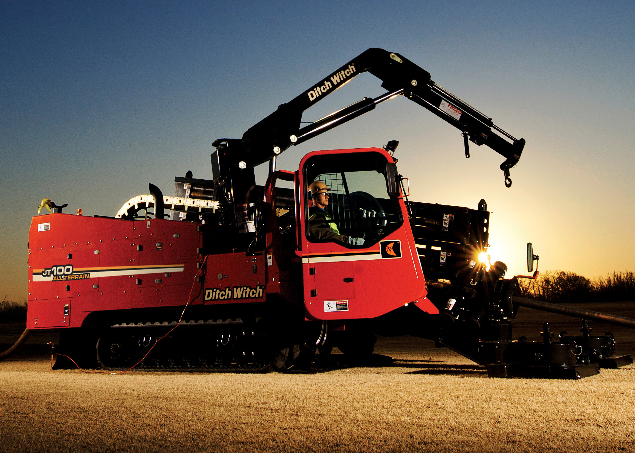 Ditch Witch JT100